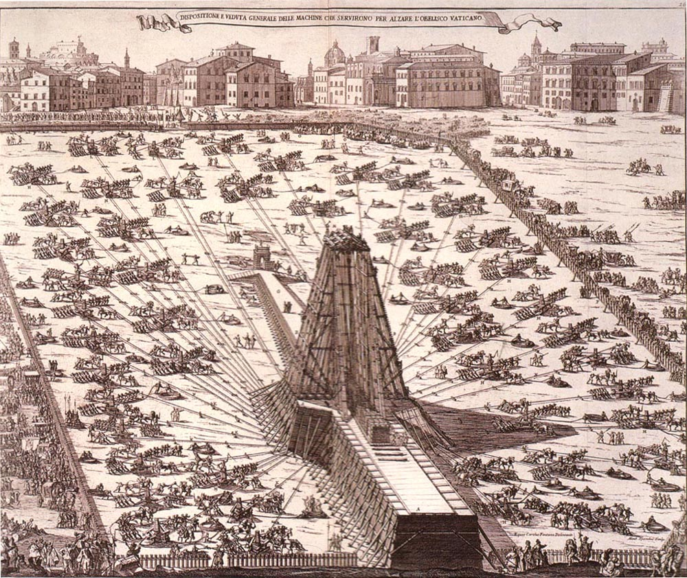 Text on the banner: Dispositione e veduta generale delle machine che servirono per alzare l'obelisco Vaticano (translation: Positioning and overview of the machines that will erect the Vatican obelisk). In 1586, Domenico Fontana erected an Obelisk on Peter's Square in Rome. It took a concerted effort of 900 men and 75 horses and countless pulleys to erect this monument.